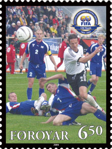 FIFA 100 years - Faroes vs. Germany. Date of issue: 2004